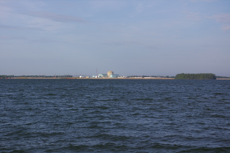 The Monticello Reservoir in Jenkinsville SC. The Virgil C. Summer Nuclear Generating Station can be seen on the far side of the lake.